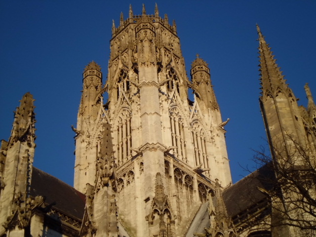 Abbey Church St Ouen of Rouen (Normandy)